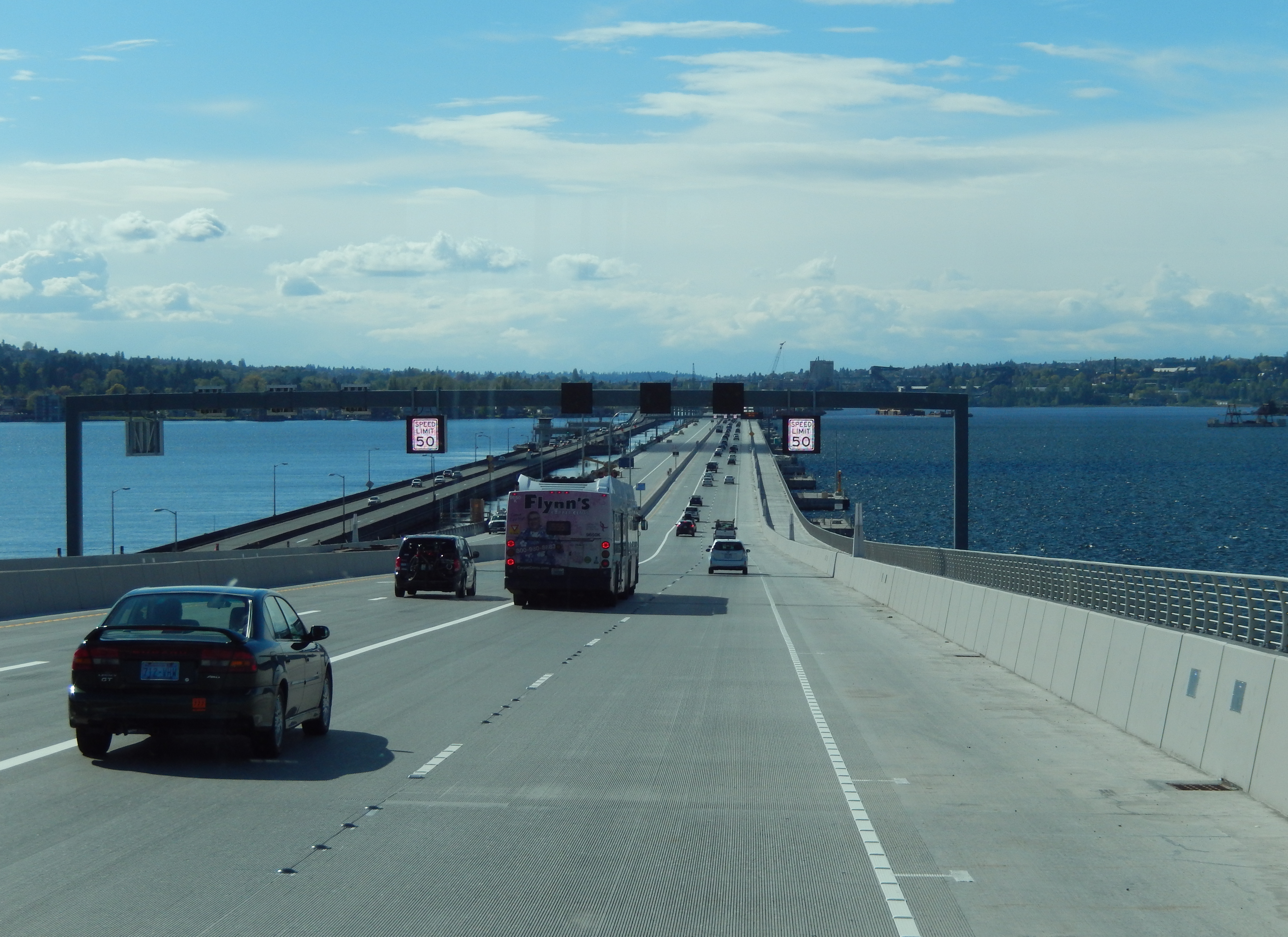 WA SR-520 New Bridge